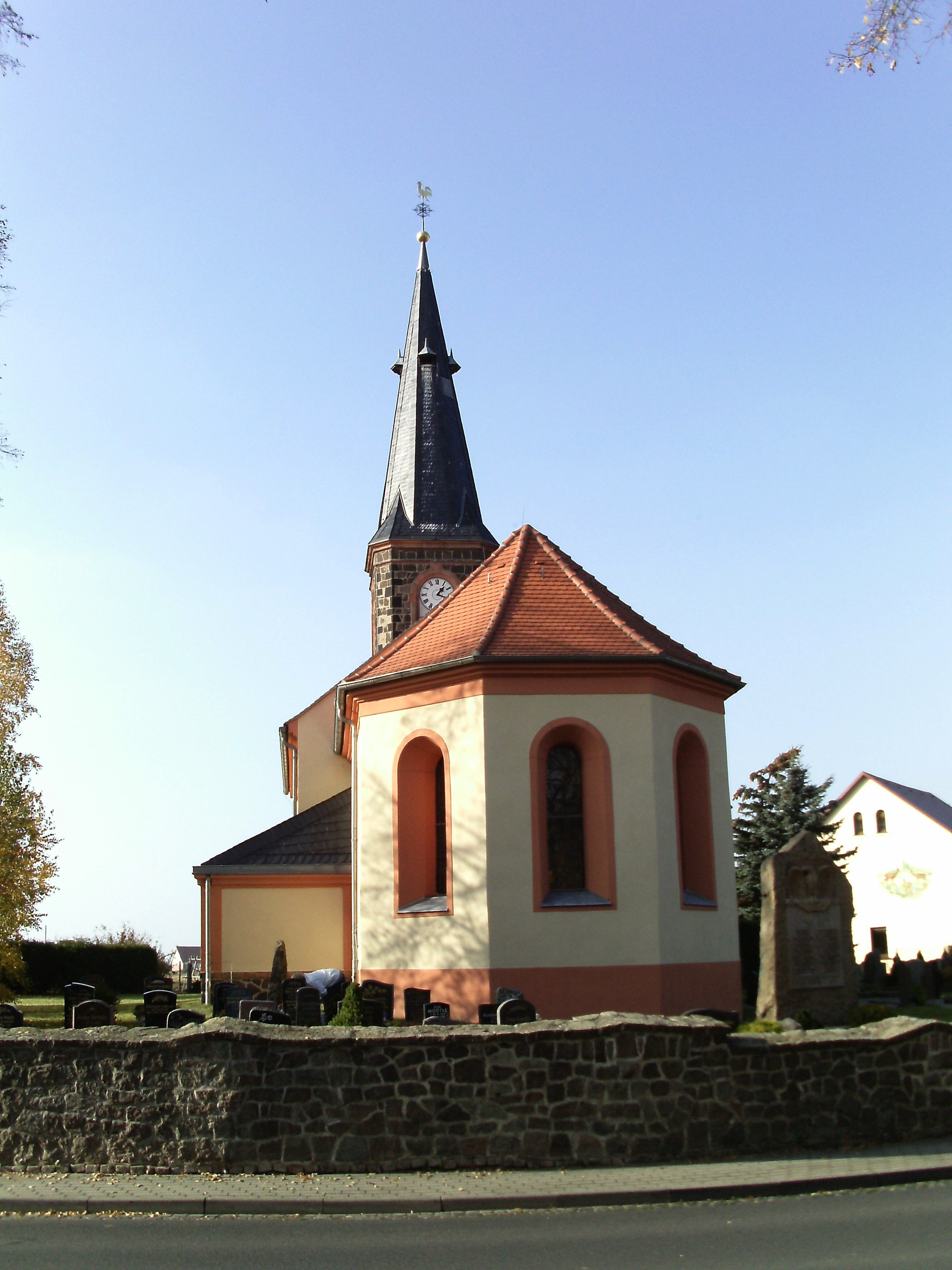 St. Peter's Church in Albrechtshain (Naunhof, Leipzig district, Saxony) from the east